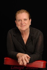 photo of Cristina Bicchieri